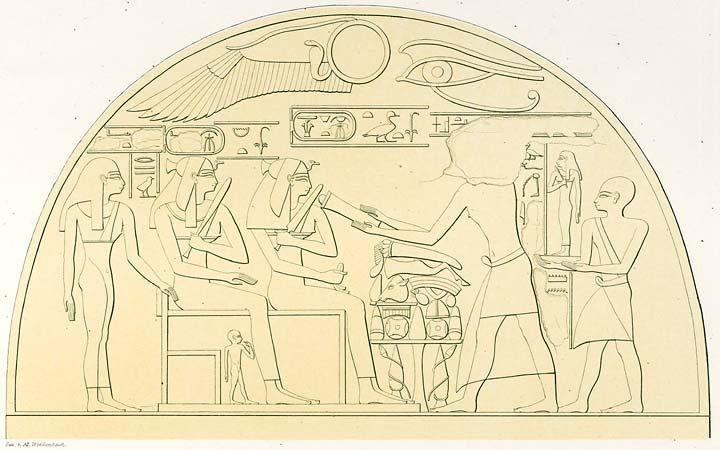 Princess Ahmose Henuttamehu of the 17th dynasty of Ancient Egypt. Behind her is possibly her mother Ahmose Inhapi.